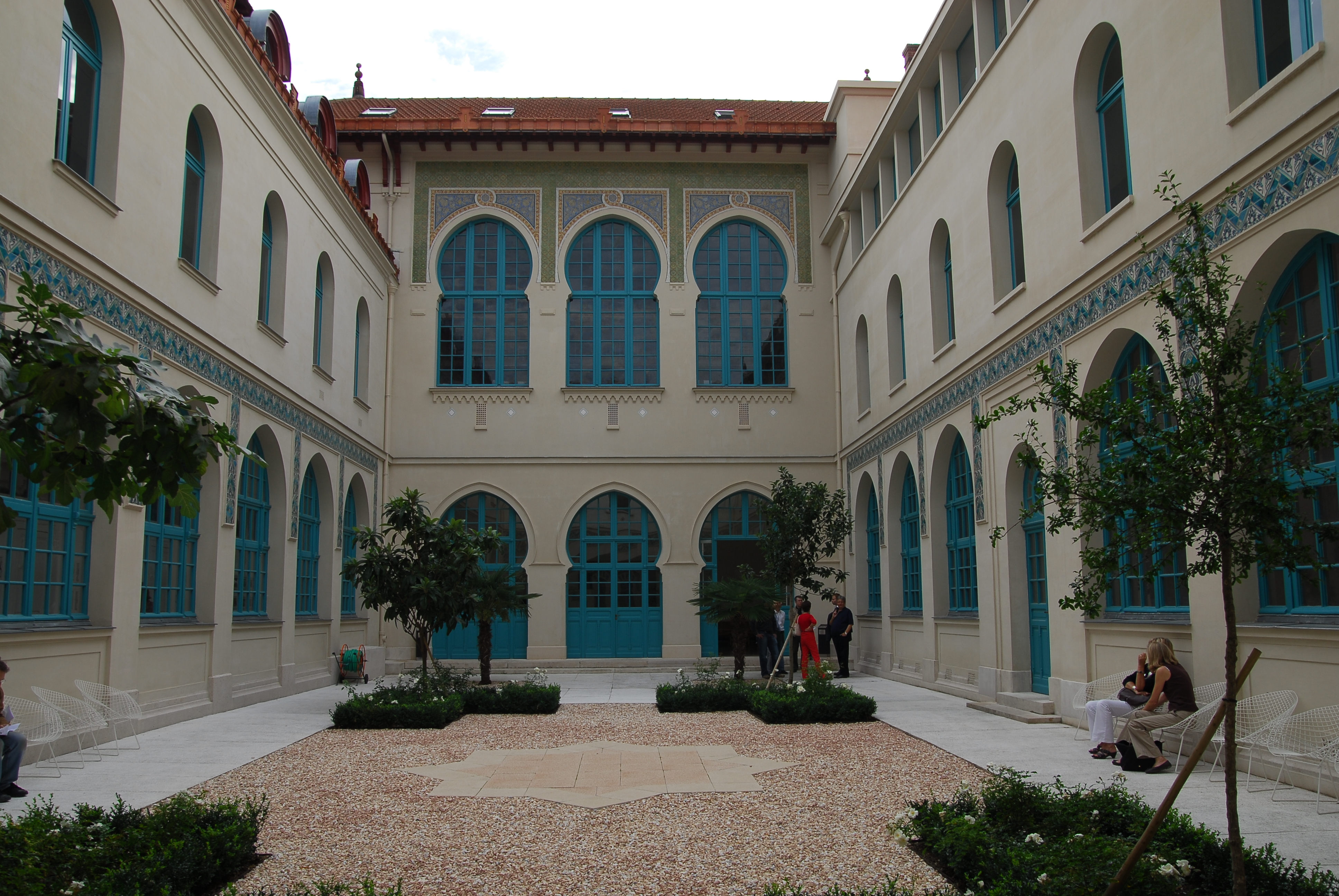 See École nationale d'administration.